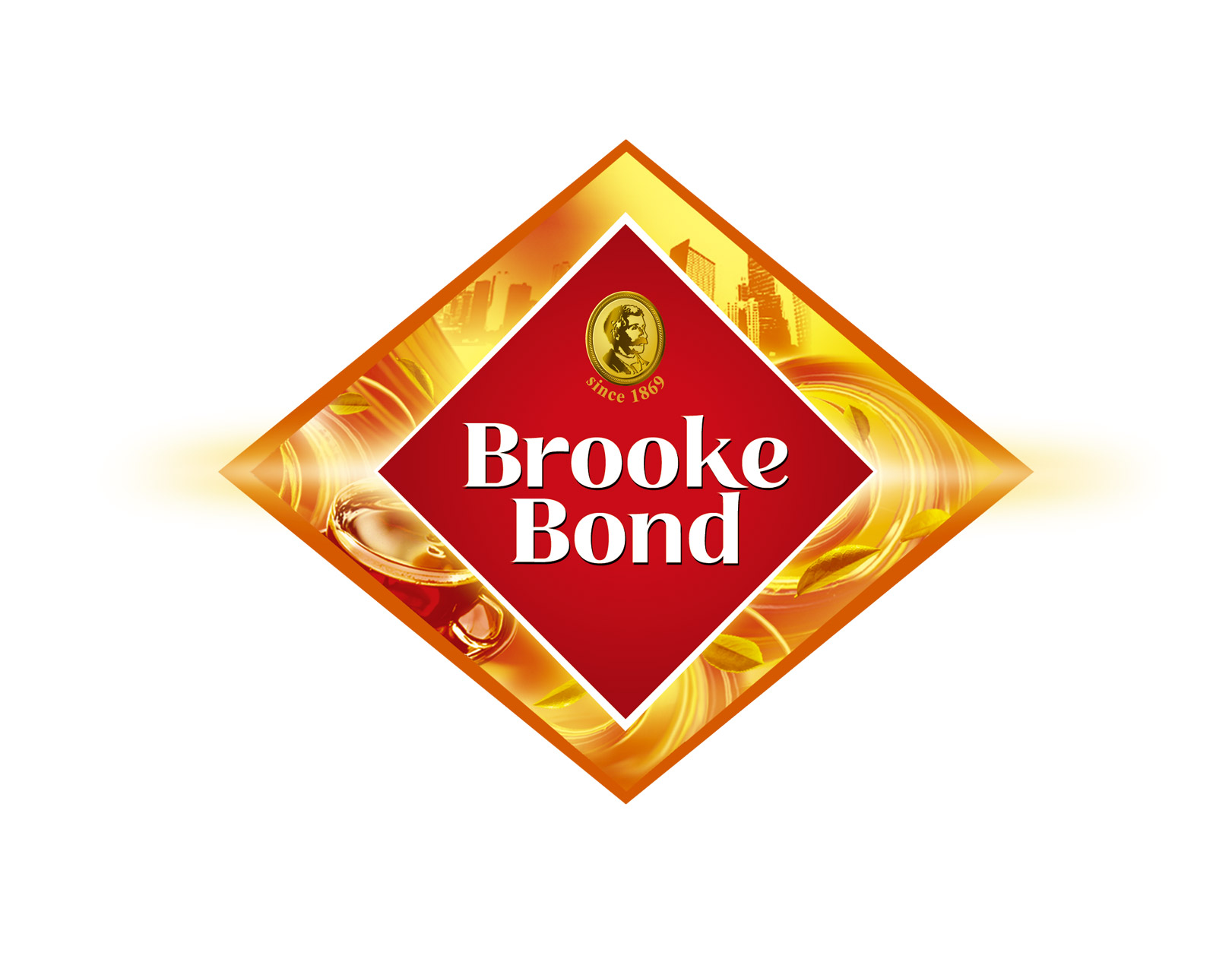 Brooke Bond logo